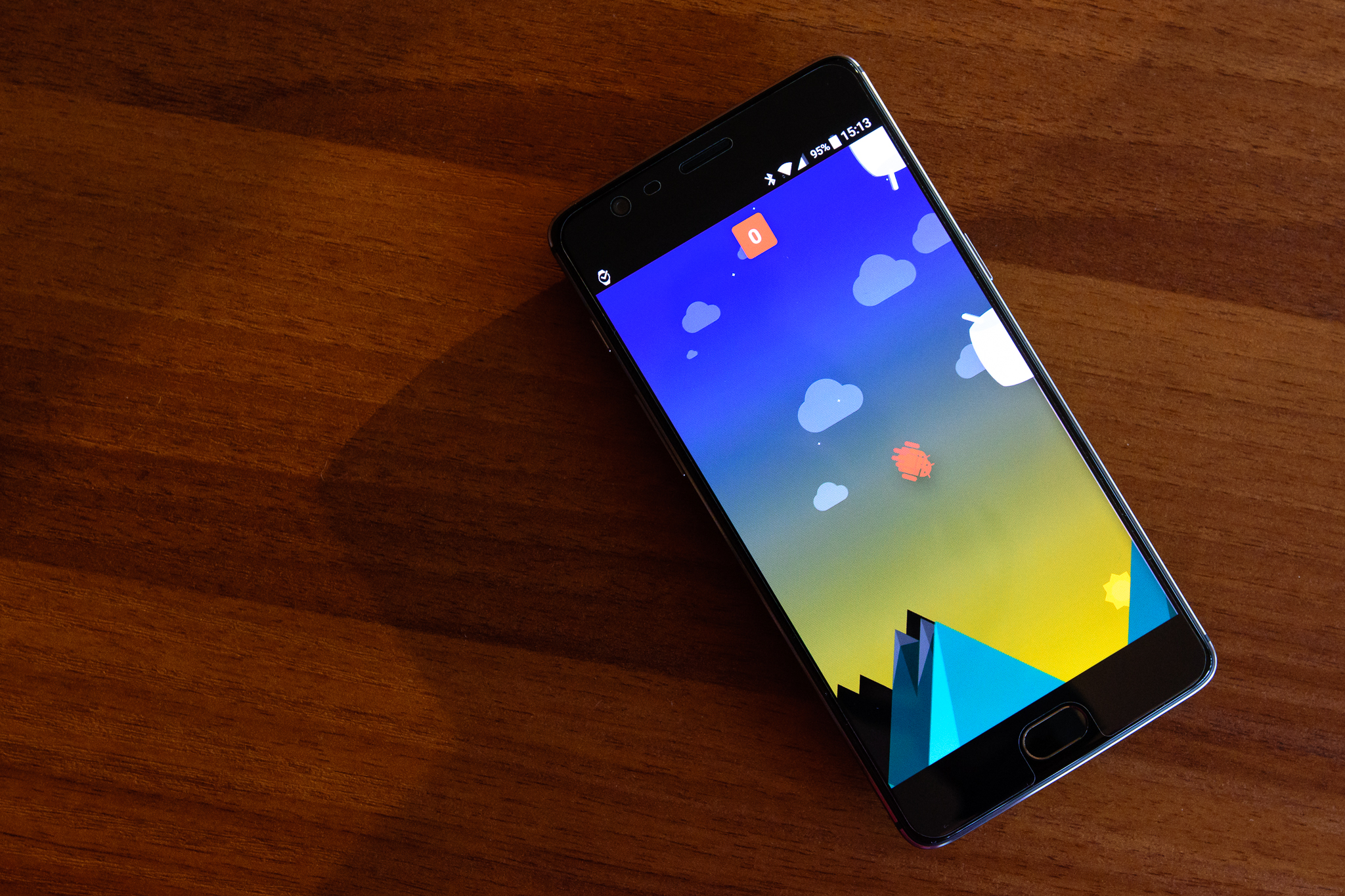 OnePlus 3T with Angry Android